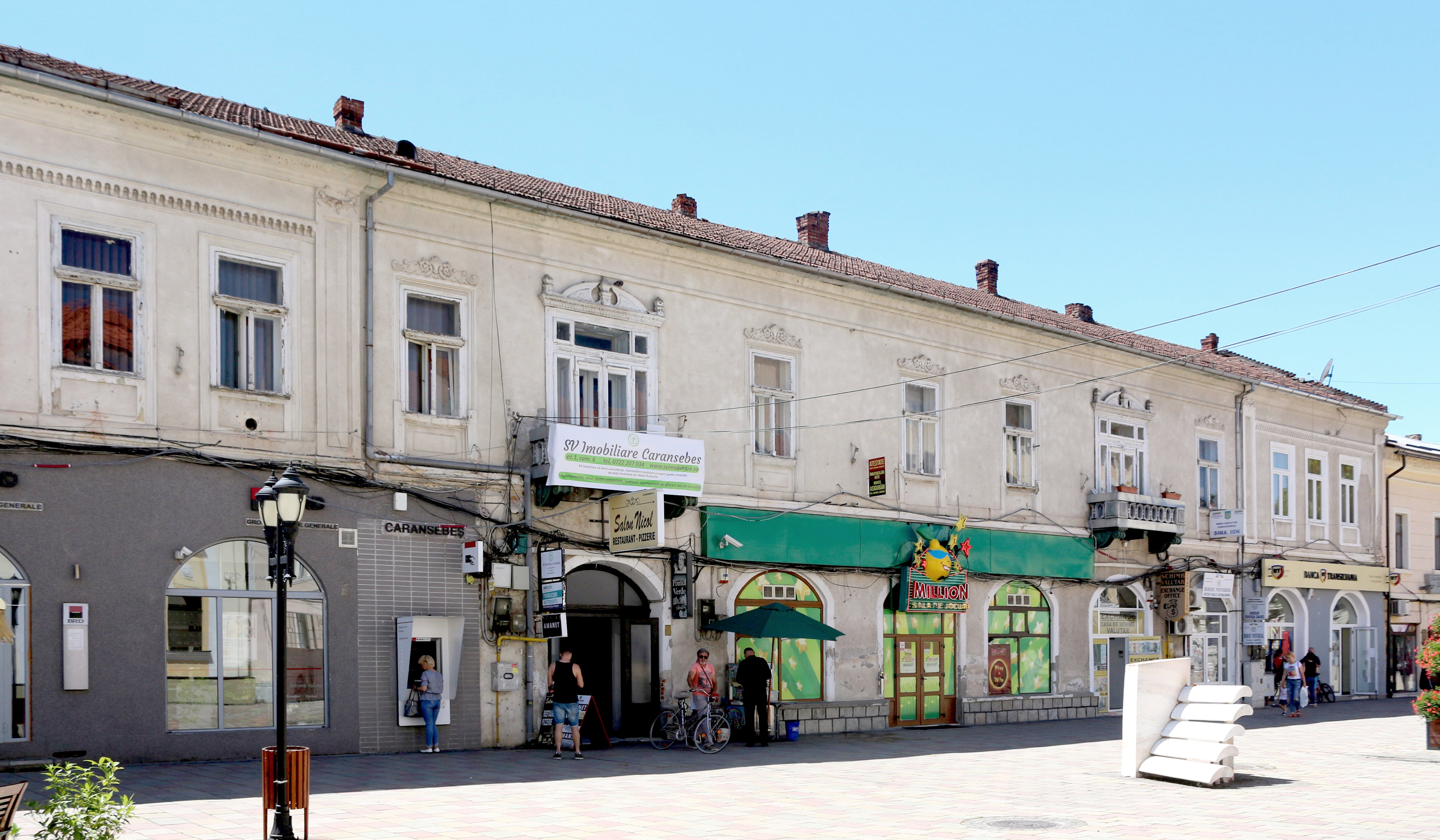 Former Restaurant "Pomul Verde" (The Green Tree), Eiscopiei St., no. 8, Catransebeș, Romania, built 1740